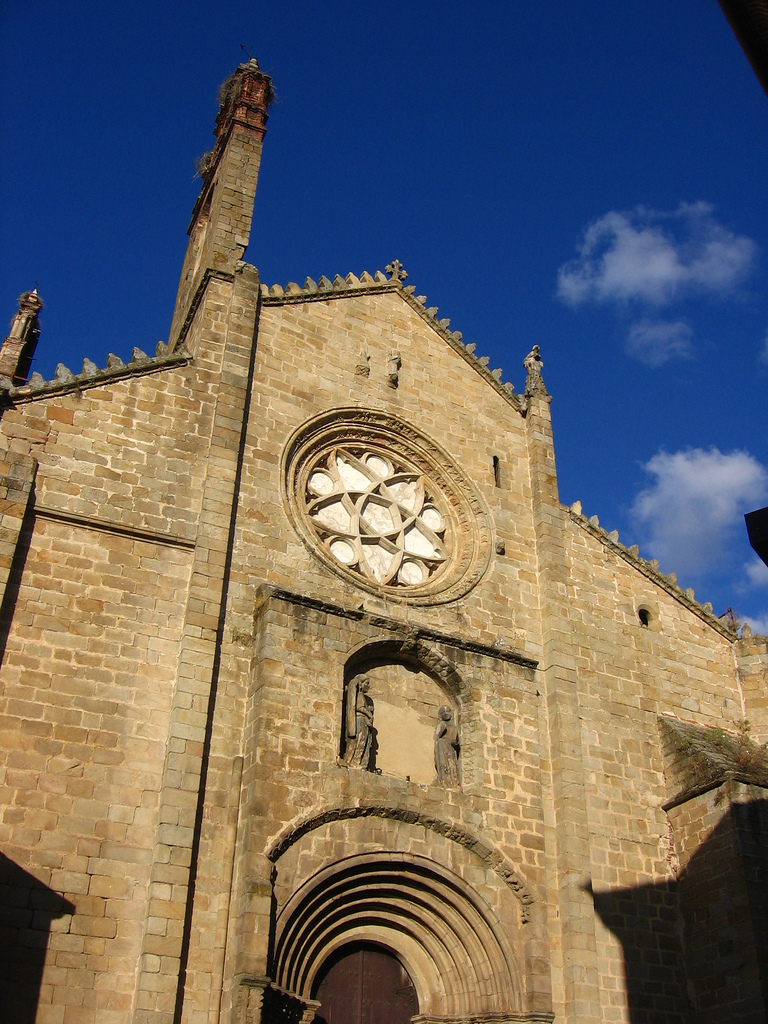 See where this picture was taken. ? Catedral Vieja de Plasencia